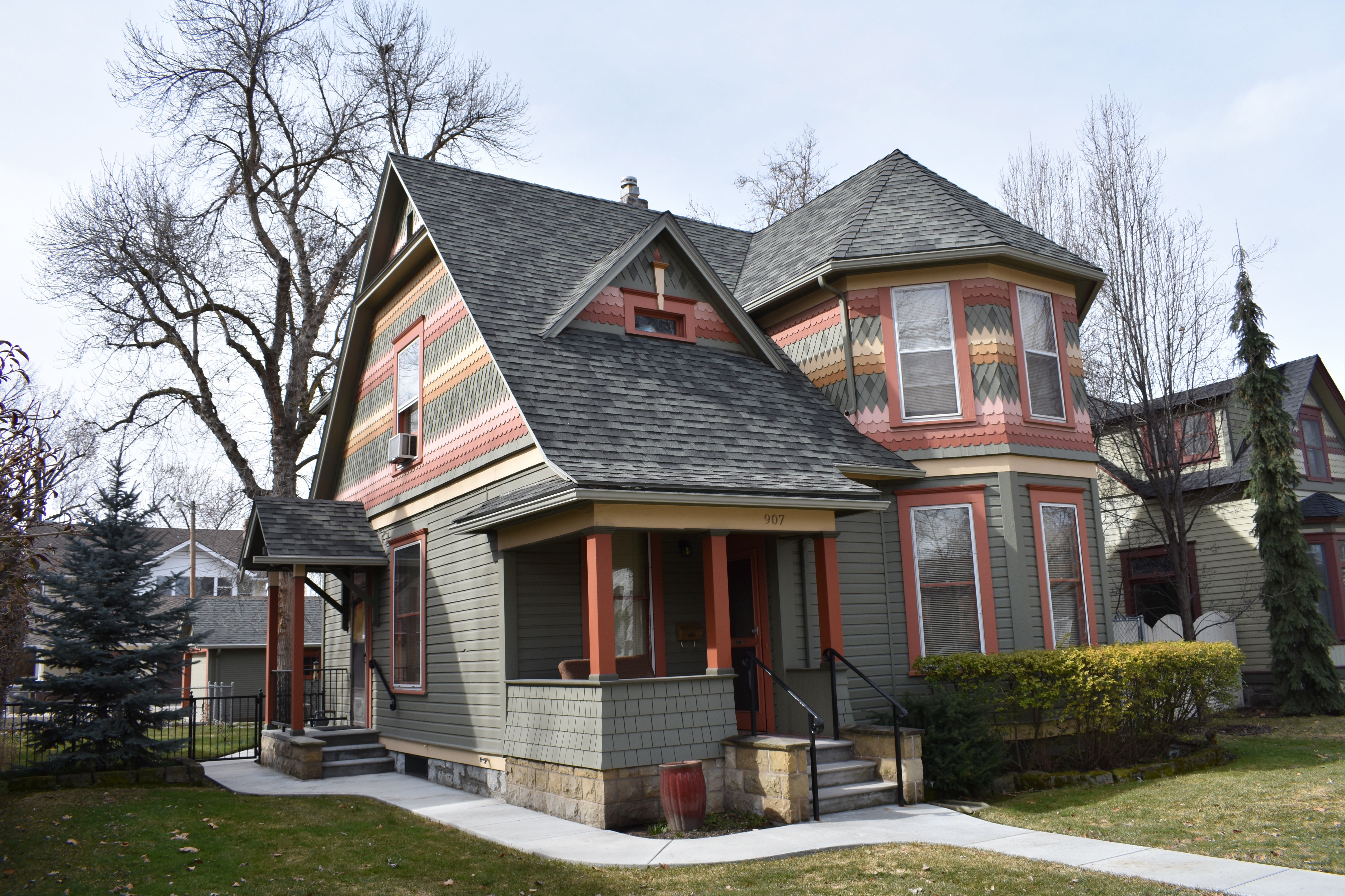 The Alva Fleharty House in Boise, Idaho, was designed by Tourtellotte & Co. and is listed on the National Register of Historic Places. The house also is part of the Fort Street Historic District.